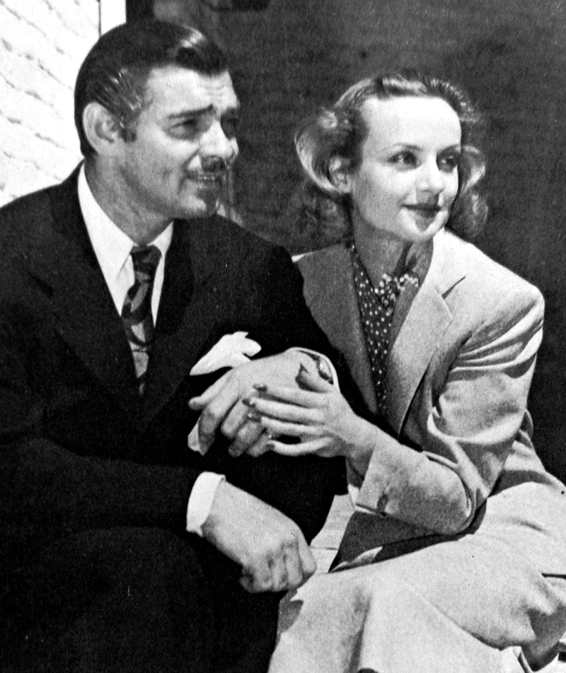 Studio publicity photo of Clark Gable and Carole Lombard after their honeymoon, 1939.